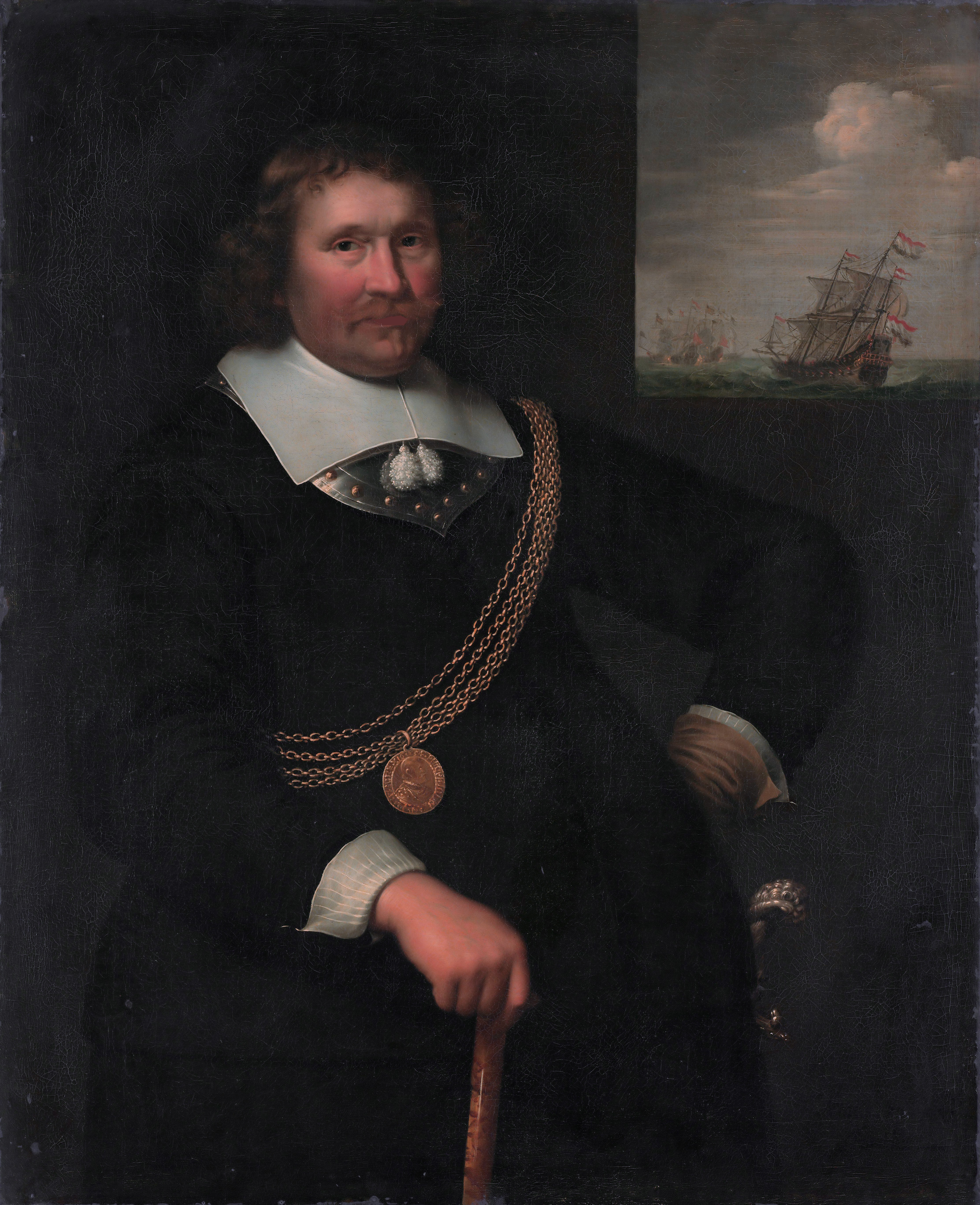 Jan Cornelisz Meppel, Lieutenant-Admiral of Holland and West-Friesland oil on canvas 106.5 × 87.5 cm signed: AEtatis 52. 1661 JRootius